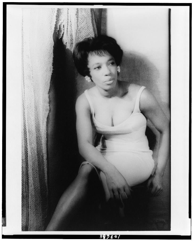 Photo of actress Diana Sands.